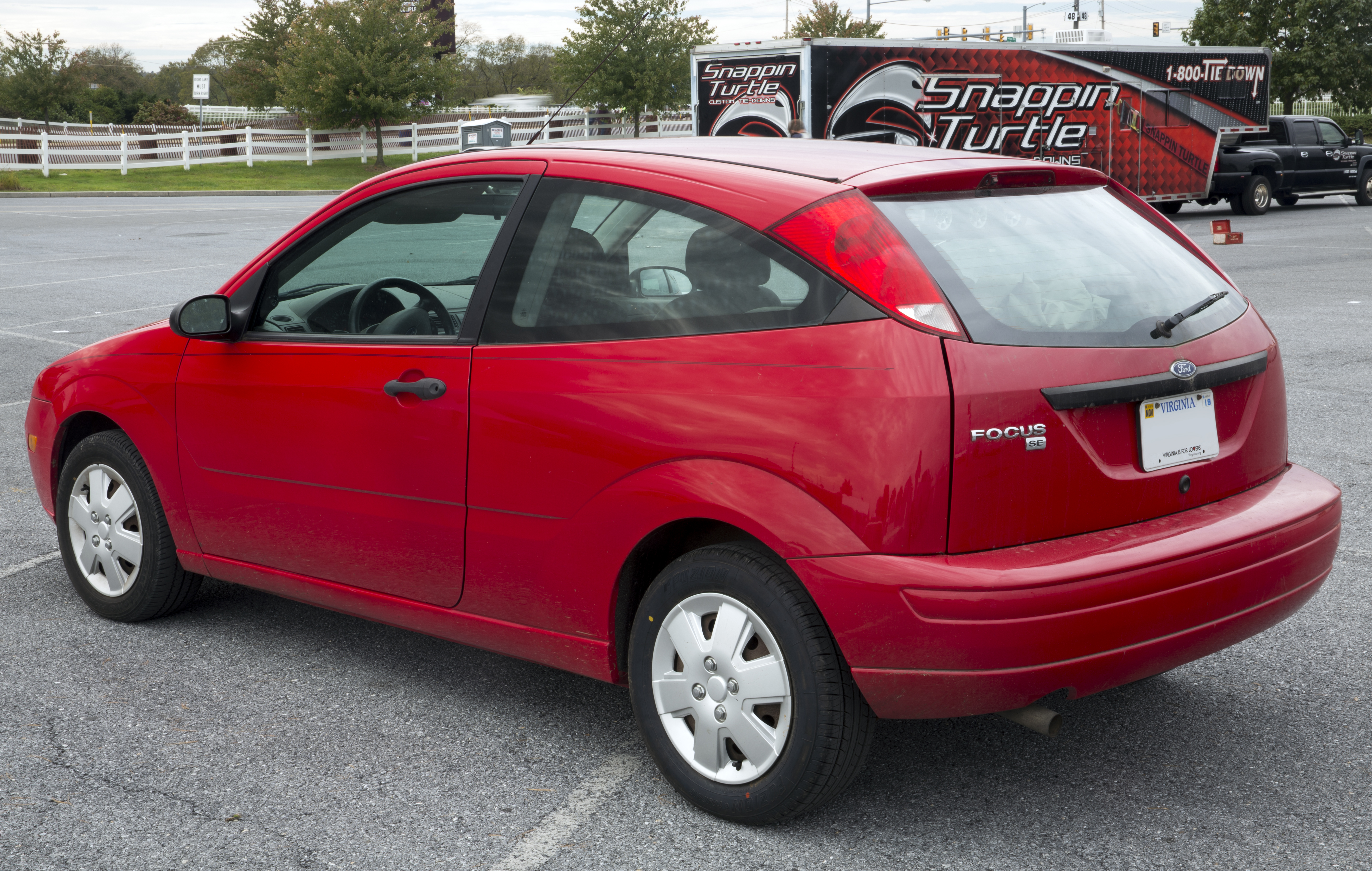 2007 Ford Focus SE (ZX3, although the '07s don't carry badging that reflects the body style) in the flea market area at Hershey 2019. Last year for the first gen Focus in the US. 2.0-liter Duratec 20 engine with 136hp, built in Wayne, MI. Twenty years from now it will be in the sale section.